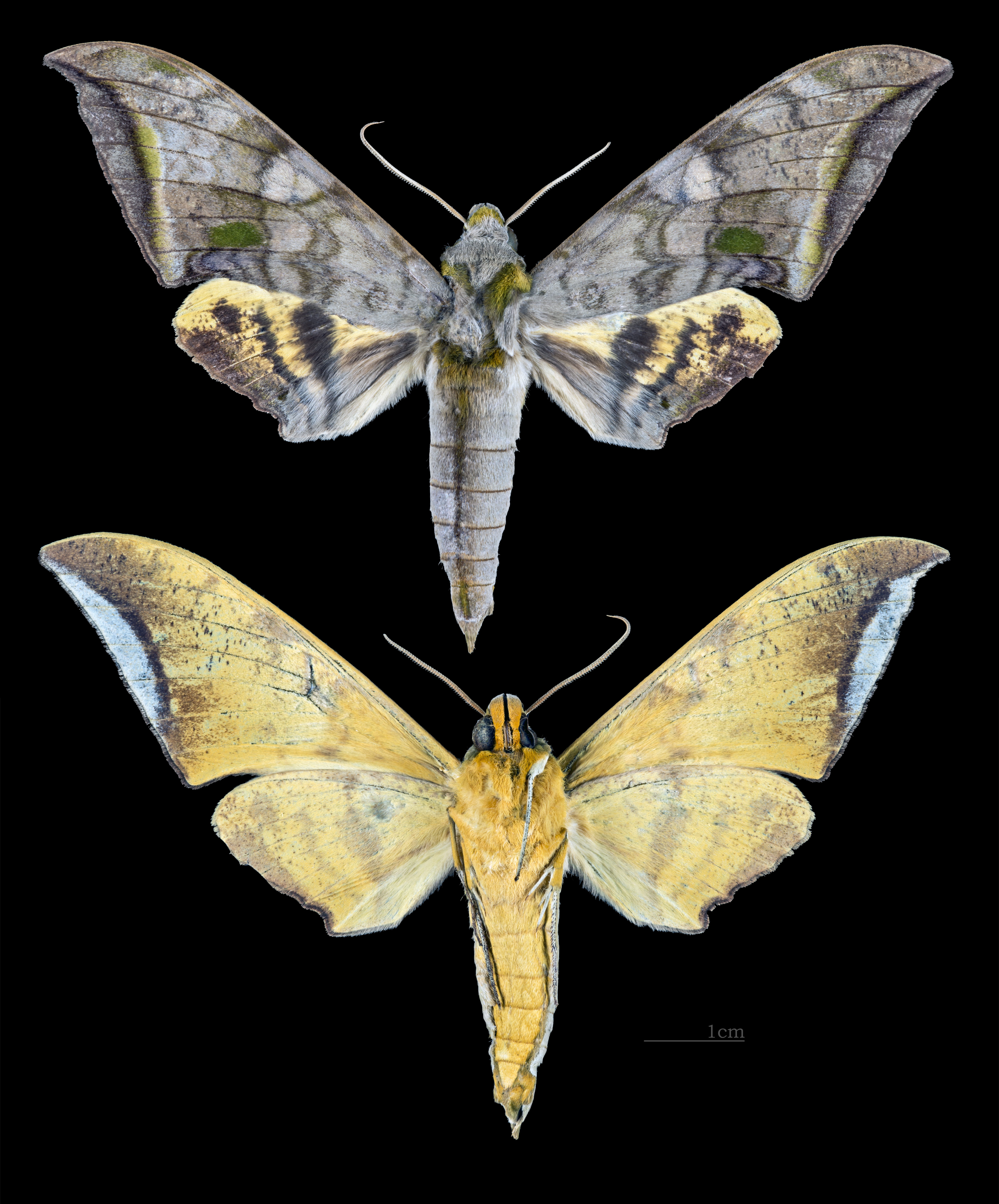 Ambulyx immaculata - Two views of same specimen Collection of the Mathematician Laurent Schwartz